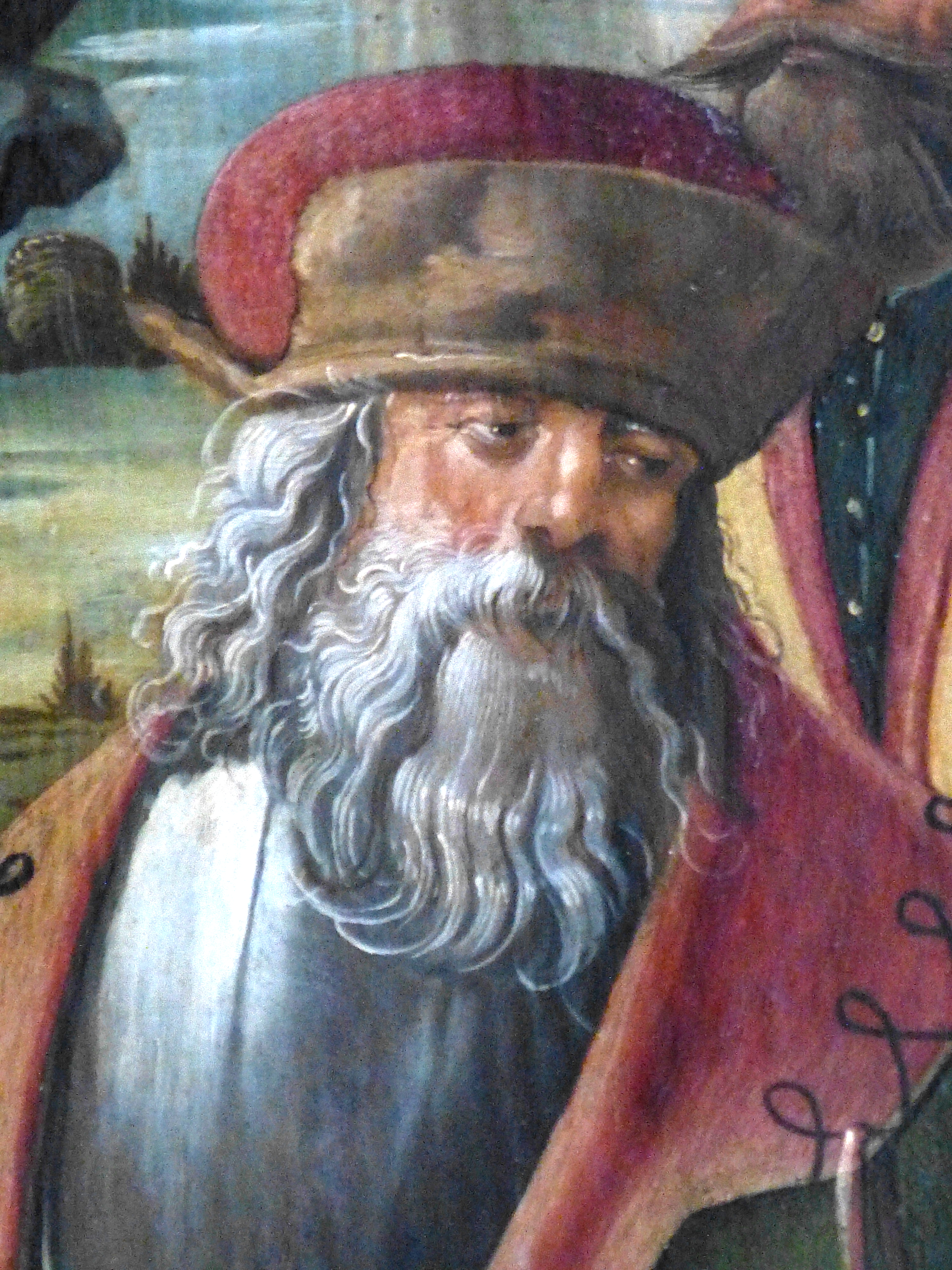 Schwabach - City church. High altar: Crucifixion of Christ ( 1506-08 ) by the workshop of Michael Wolgemut - detail: Centurio Longinus